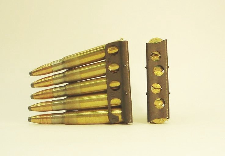 .303 British "soft point" sporting cartridges in a stripper clip, designed to be used with the Lee-Enfield series of military rifles.